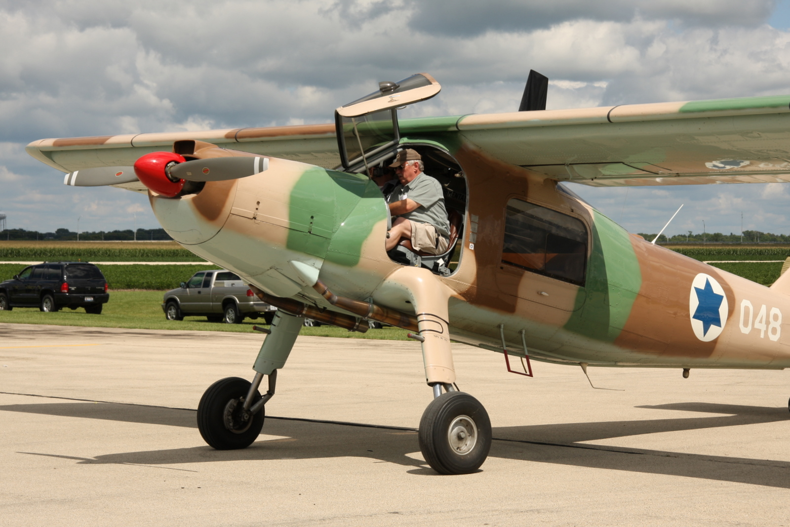 IMG_7750 (Rochelle Municipal Airport Fly-in 2009)